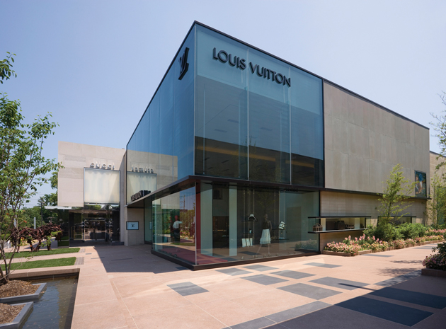 An architectural image from one of the many stores in Americana Manhasset.